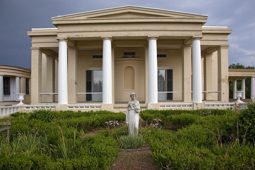 Gaineswood, a plantation house in Demopolis, Alabama.)